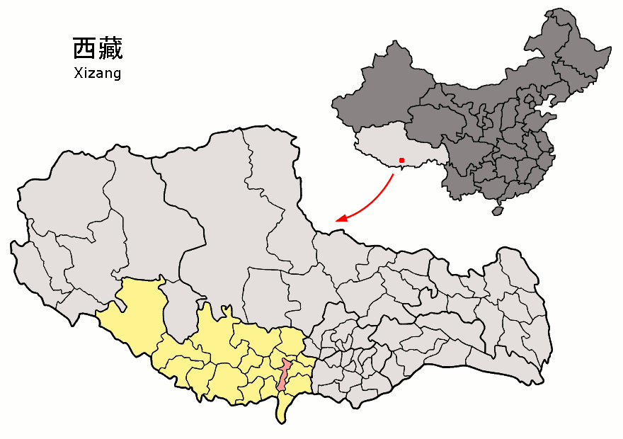 Location of Bainang County (pink) and Xigazê Prefecture (yellow) within Tibet (Xizang) autonomous region of China